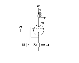 Radio Output Stage